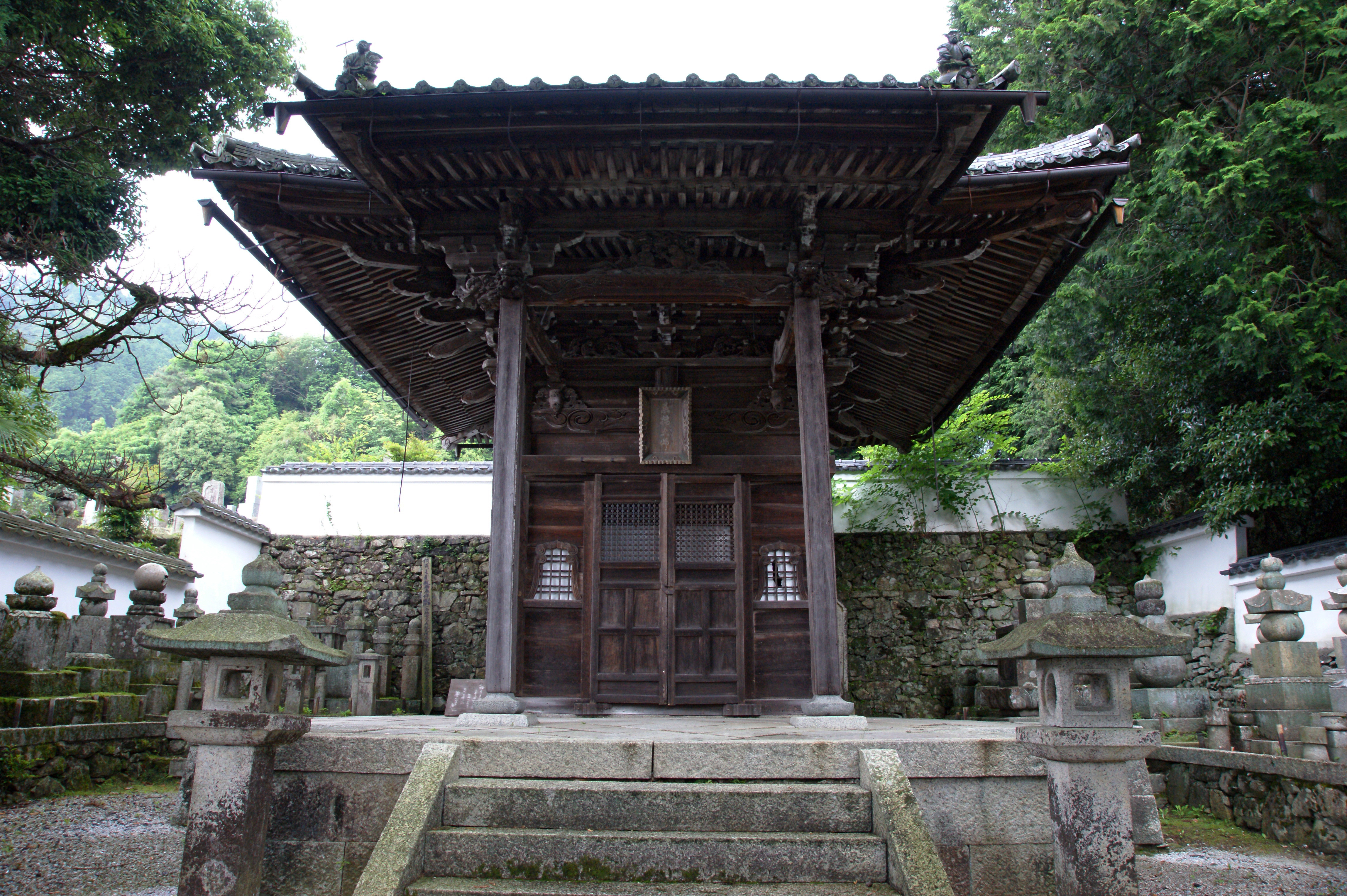 Saikyoji in Sakamoto, Otsu, Shiga prefecture, Japan